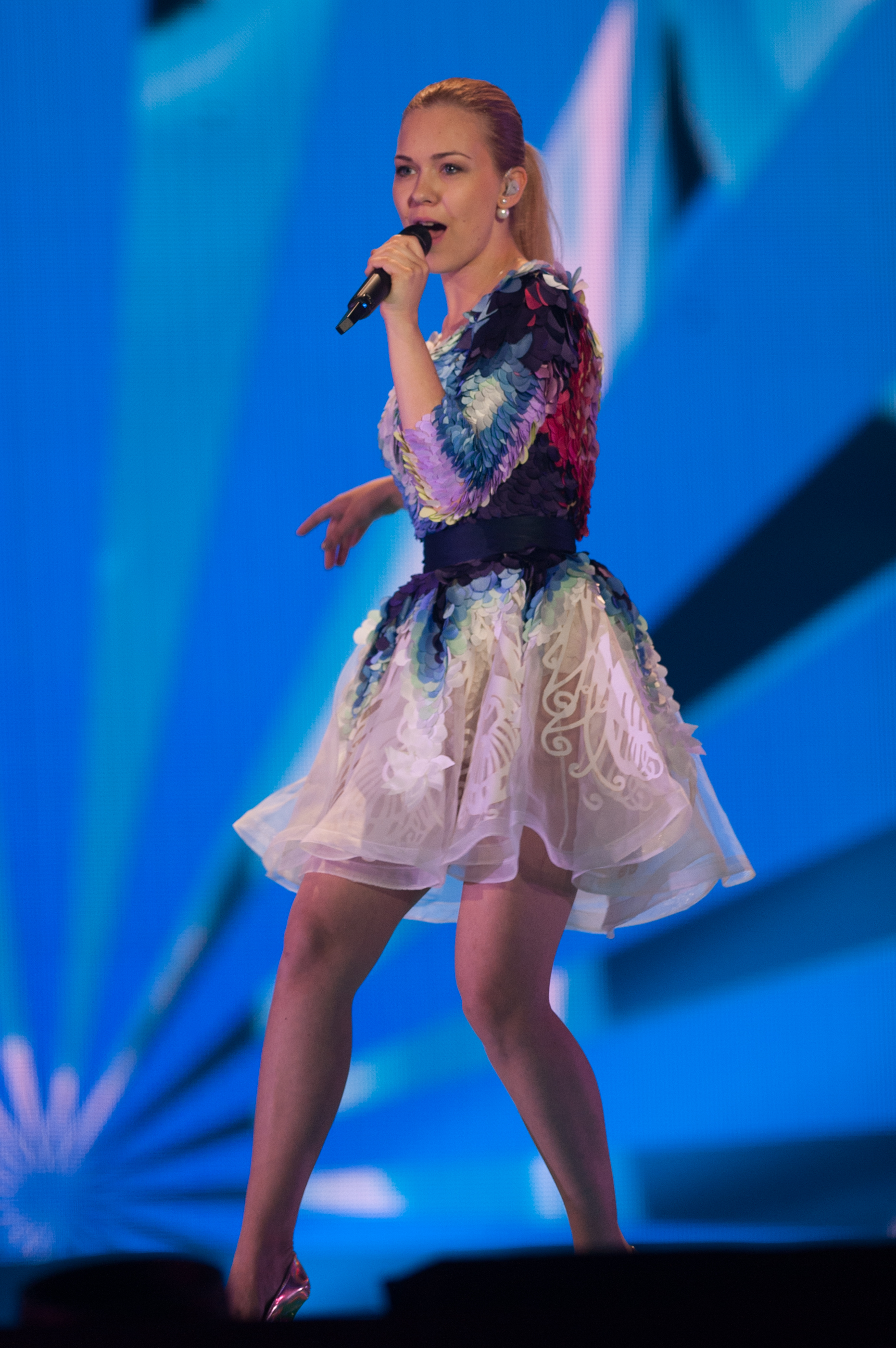 Eurovision Song Contest Vienna 2015: Monika Linkytė & Vaidas Baumila